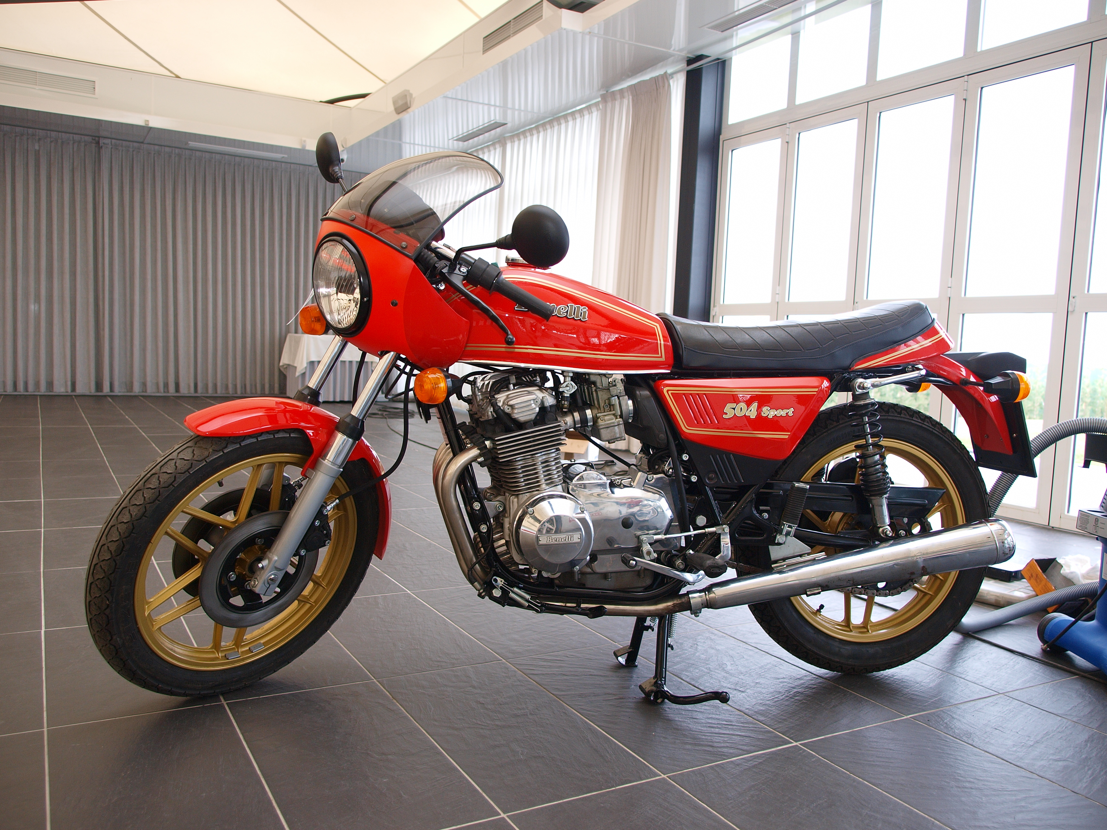 Benelli 504 Soport motorcycle at exhibition in Zamora (Spain, 2012)